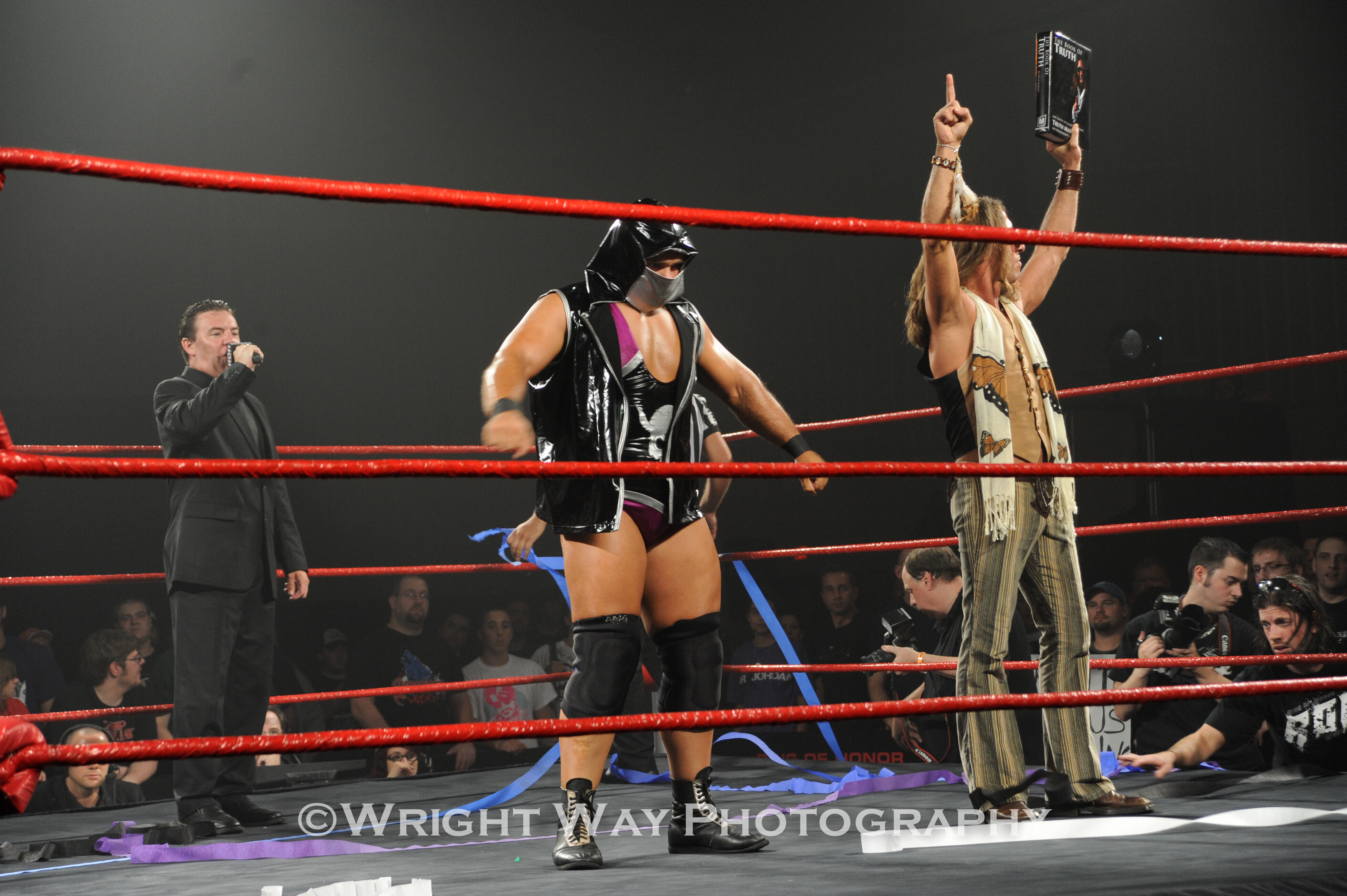 Michael Elgin (left) with his manager Truth Martini (right) at a Ring of Honor show in 2011.